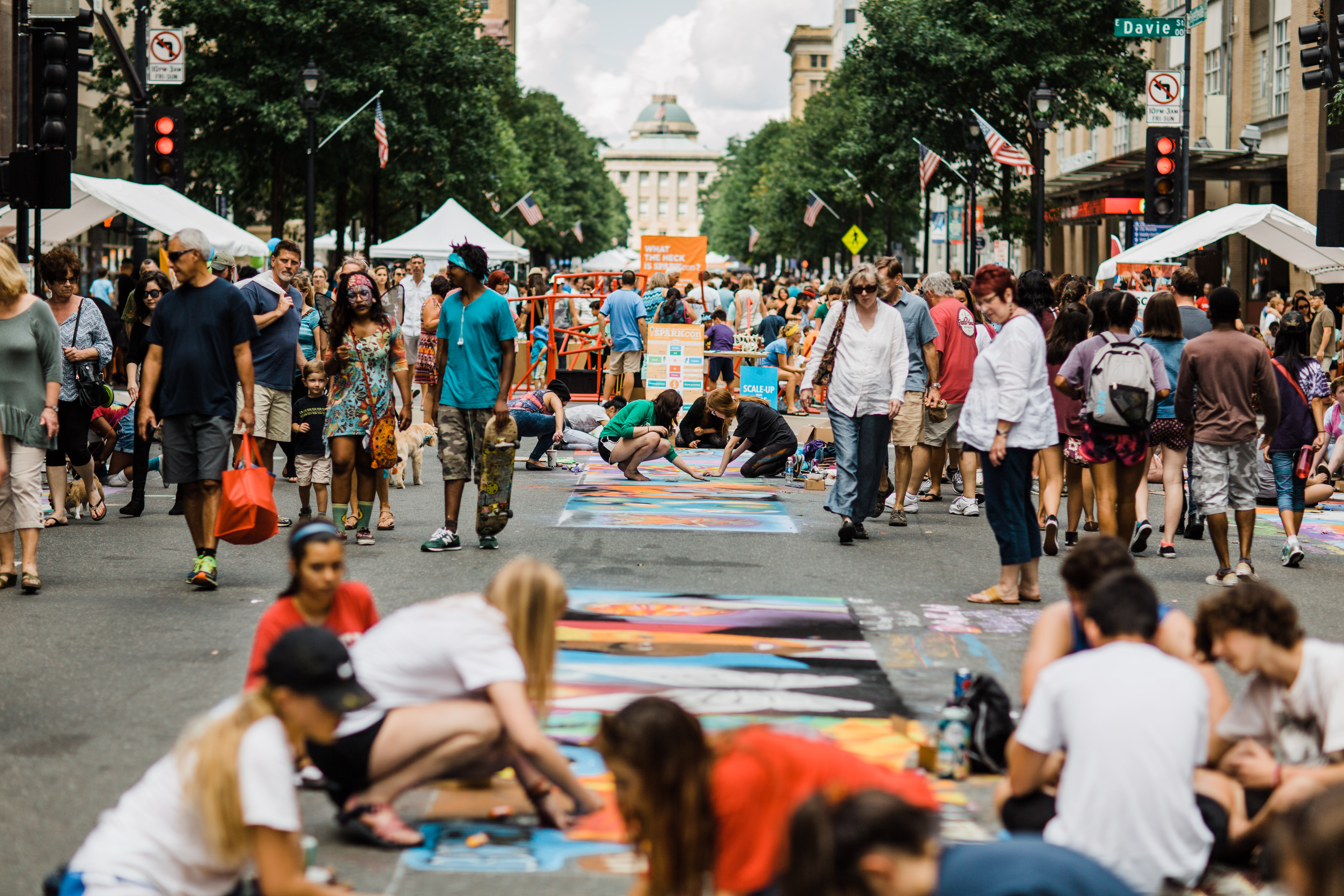 Chalk drawings line Fayetteville St as part of SPARKcon 2017.